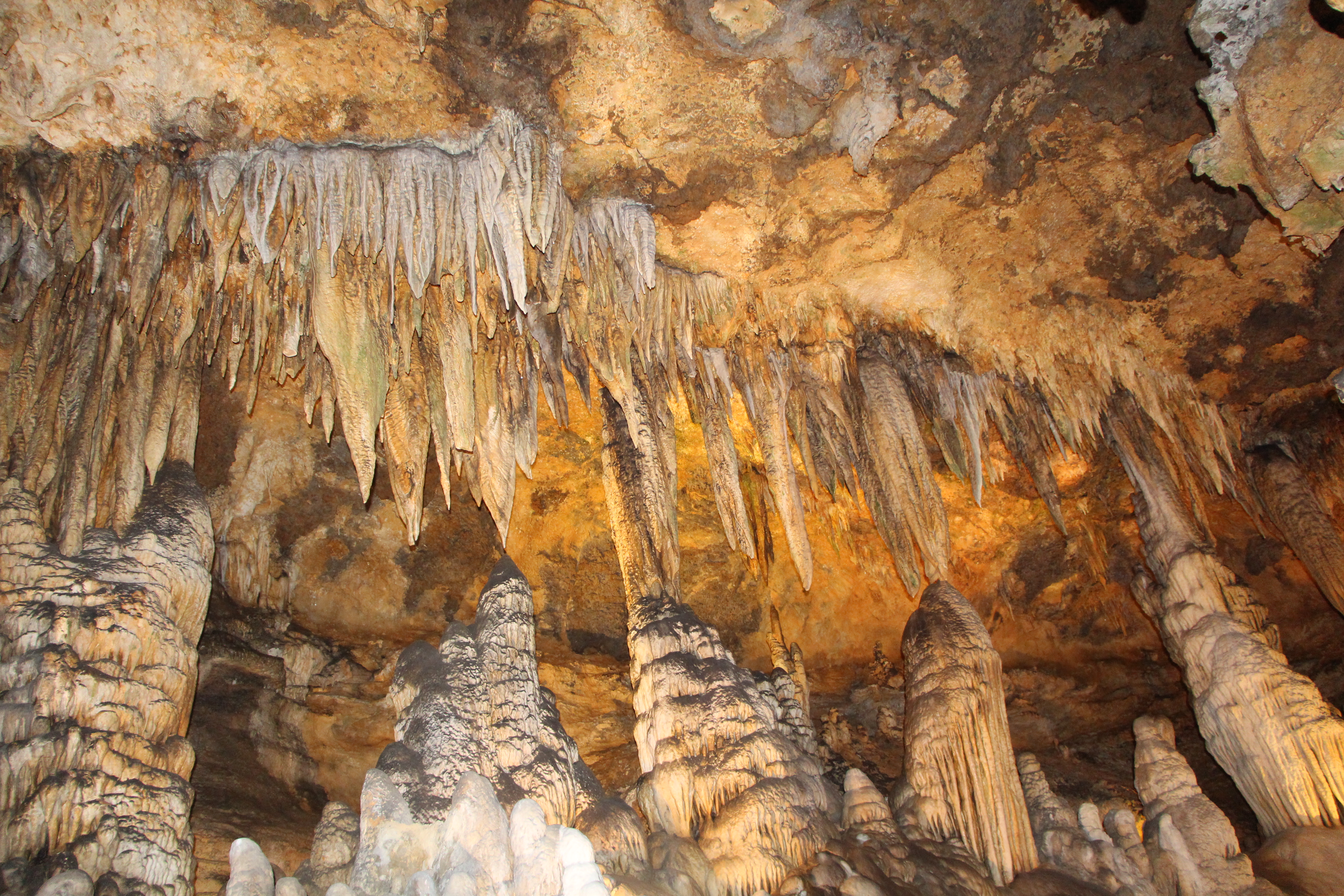 This is a picture of Luray Caverns. It shows the stalagmites and stalactites in the cave.